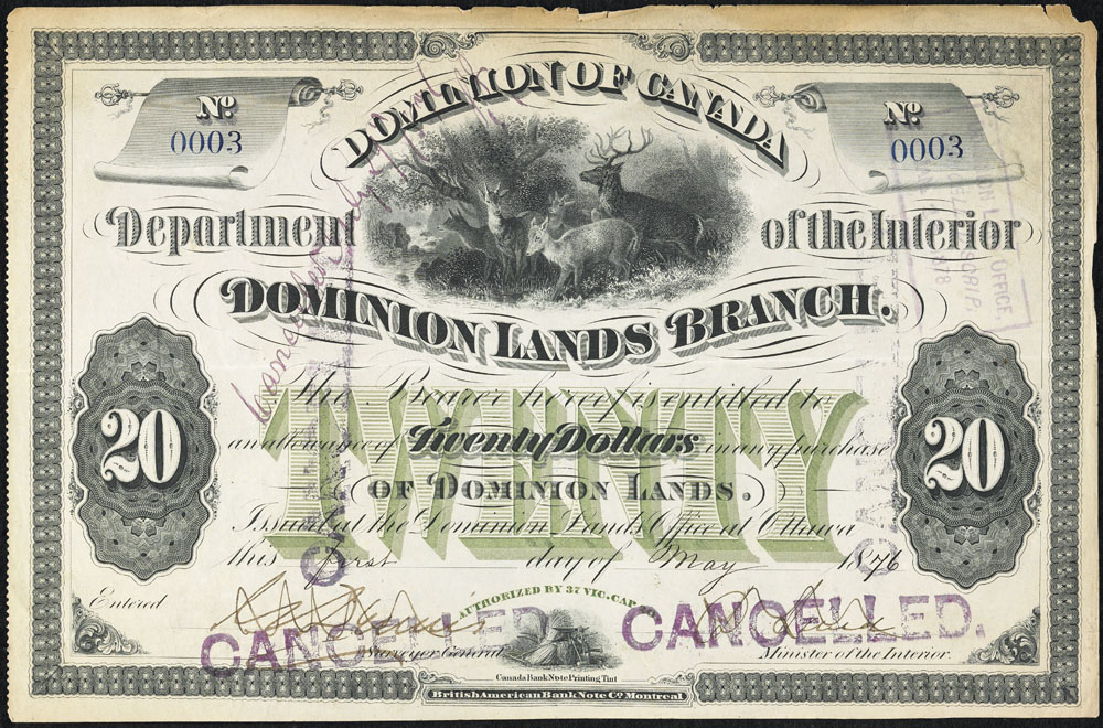 Half-Breed scrip issued for the purchase of dominion lands